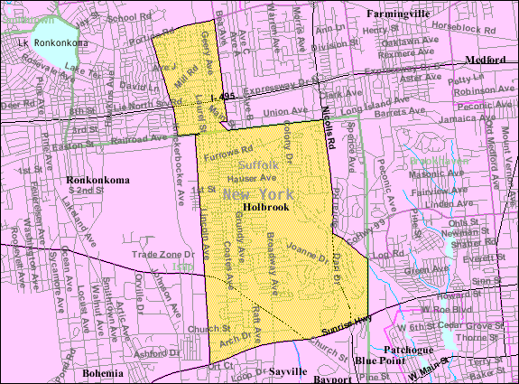 Holbrook map from U.S. Census